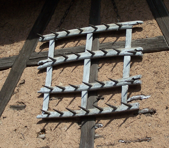 A wooden harrow. Iron spikes protrude from the wooden frame to till and smooth the soil. The harrow was made c. 1850.